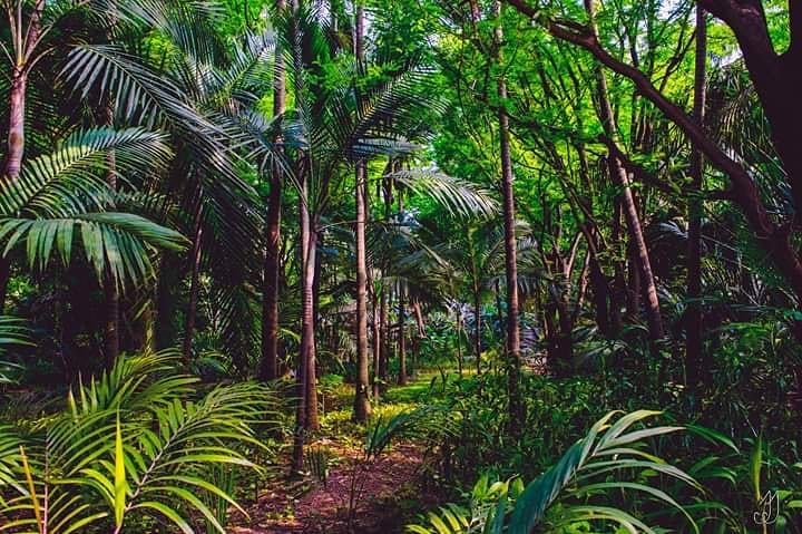 Palm trees in the Yvaga Guazú Ecological Park.